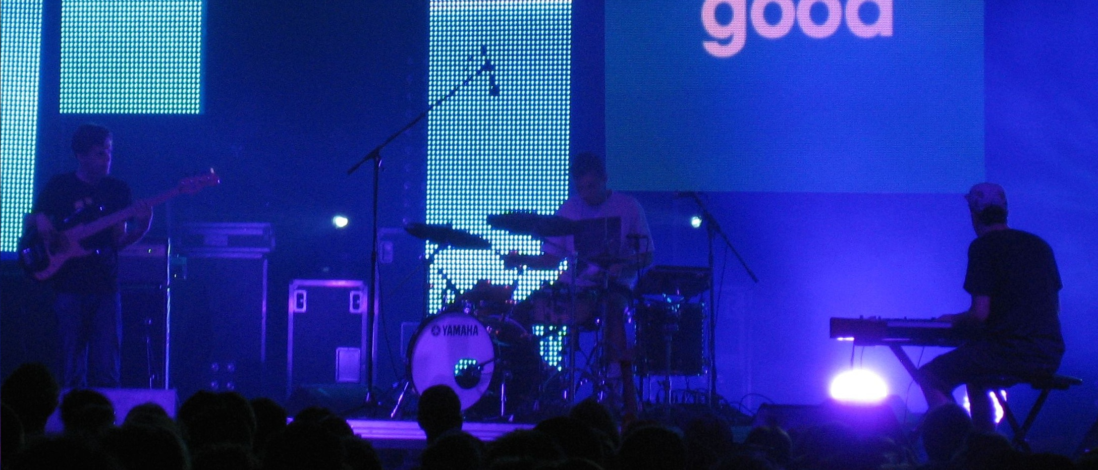 Badbadnotgood performing live in 2012 in Sete, Languedoc-Roussillon, France.